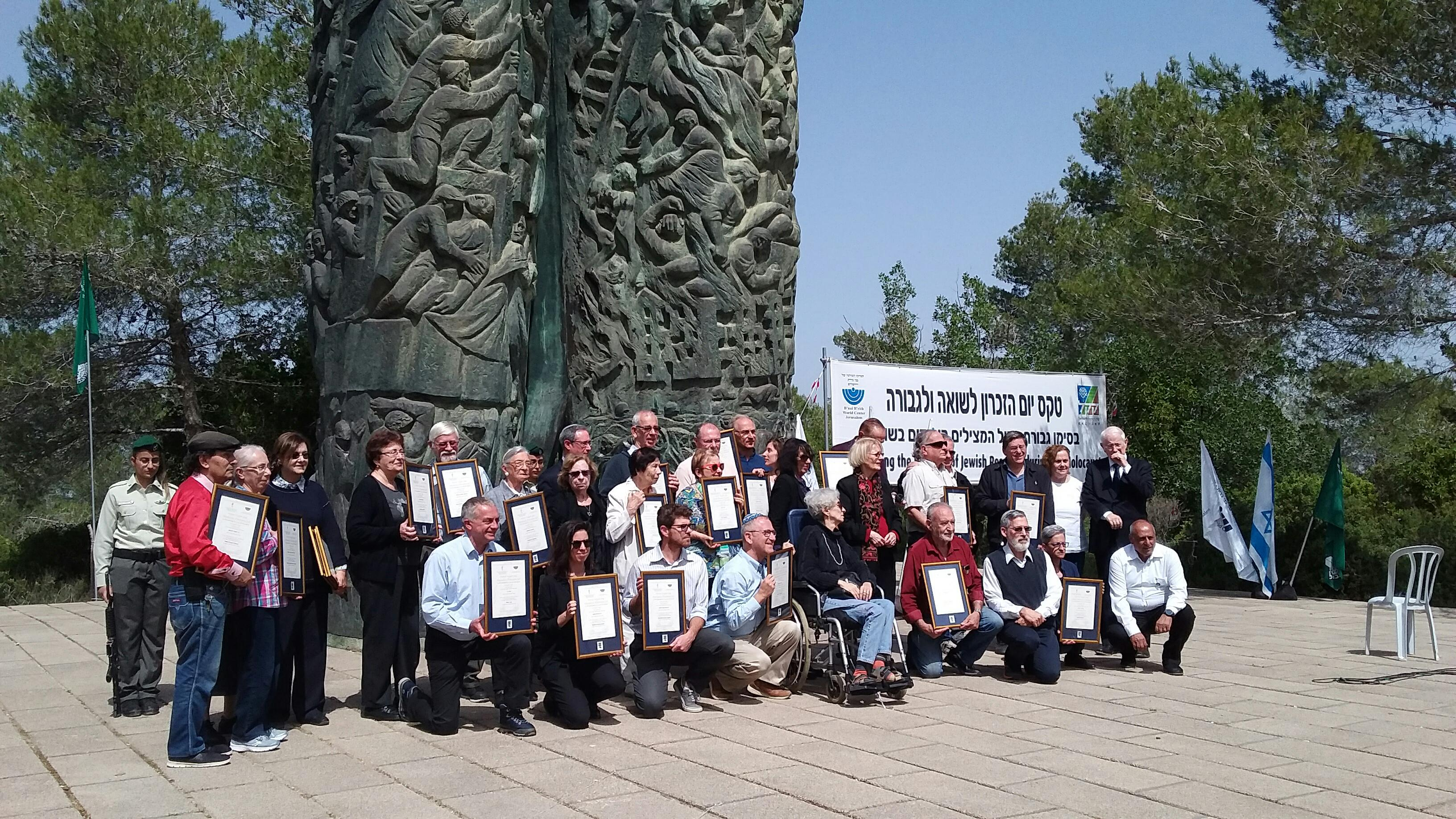 Ceremony in the Forest of the Martyrs. The Holocaust Remembrance Day 12.04.2018